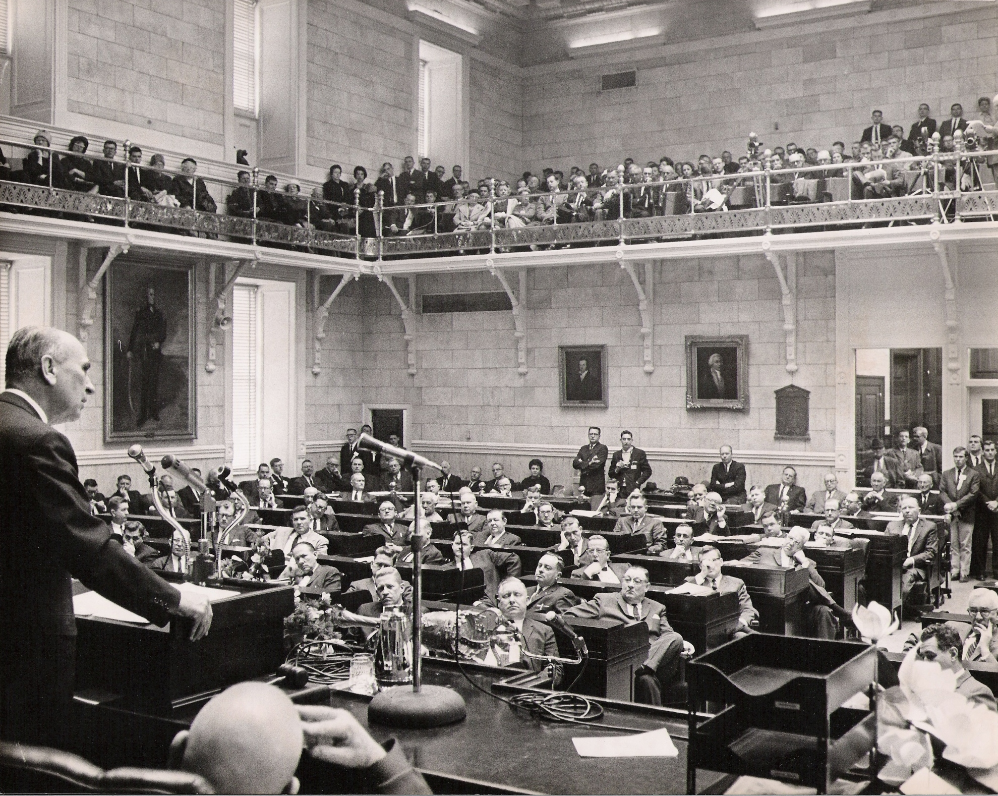 A photograph of Gov. Donald Russell (1963-1965) addressing the South Carolina General Assembly.